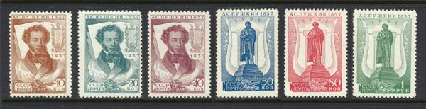 Stamp of USSR